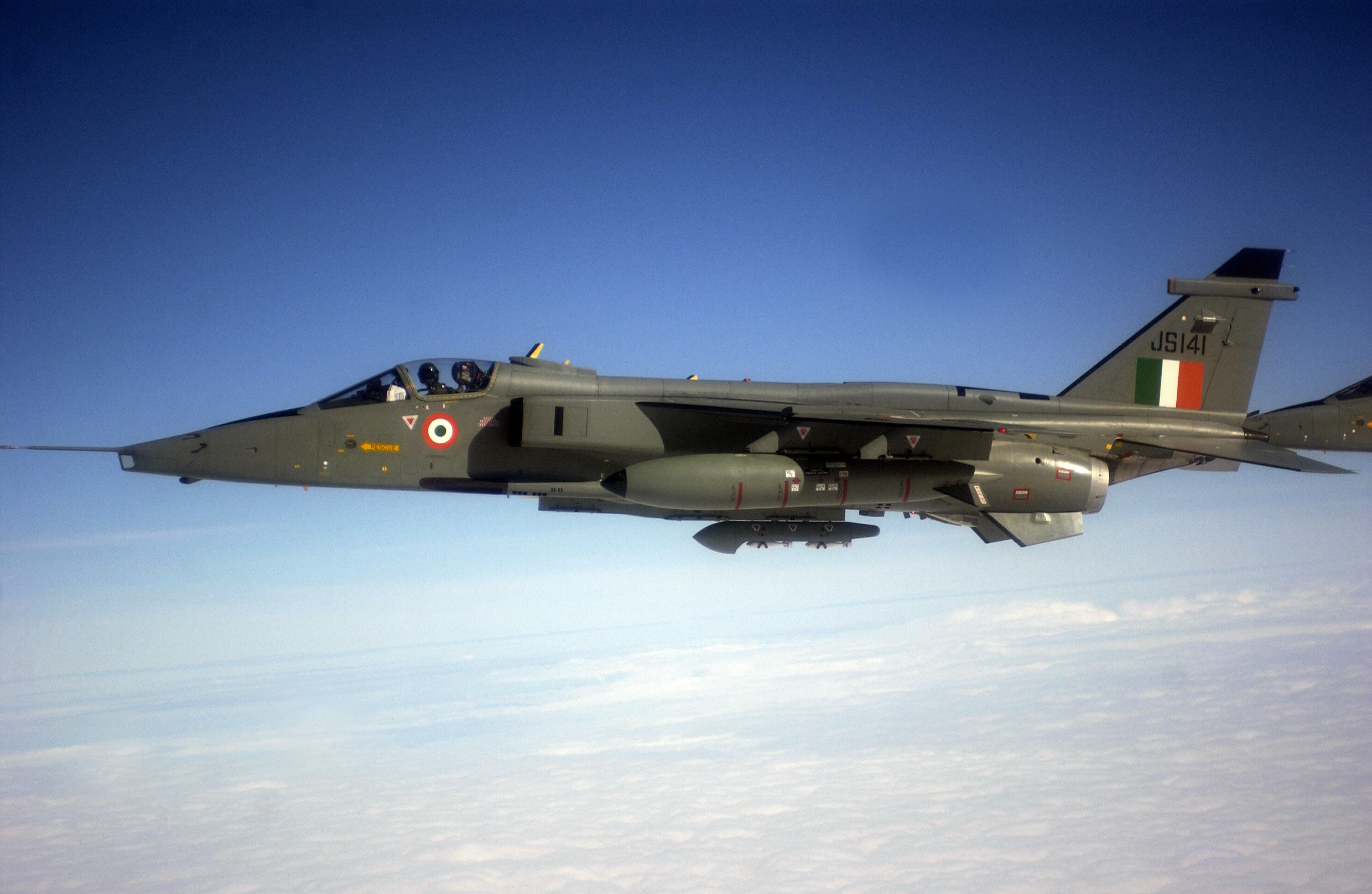 An Indian Air Force (IAF) 14th Squadron SEPECAT (Breguet/BAC) Jaguar GR-1 Shamser (Sword of Justice) ground attack aircraft prepares to receive fuel from a IAF 78th Squadron Ilyushin IL-78 Midas aerial refueling aircraft.